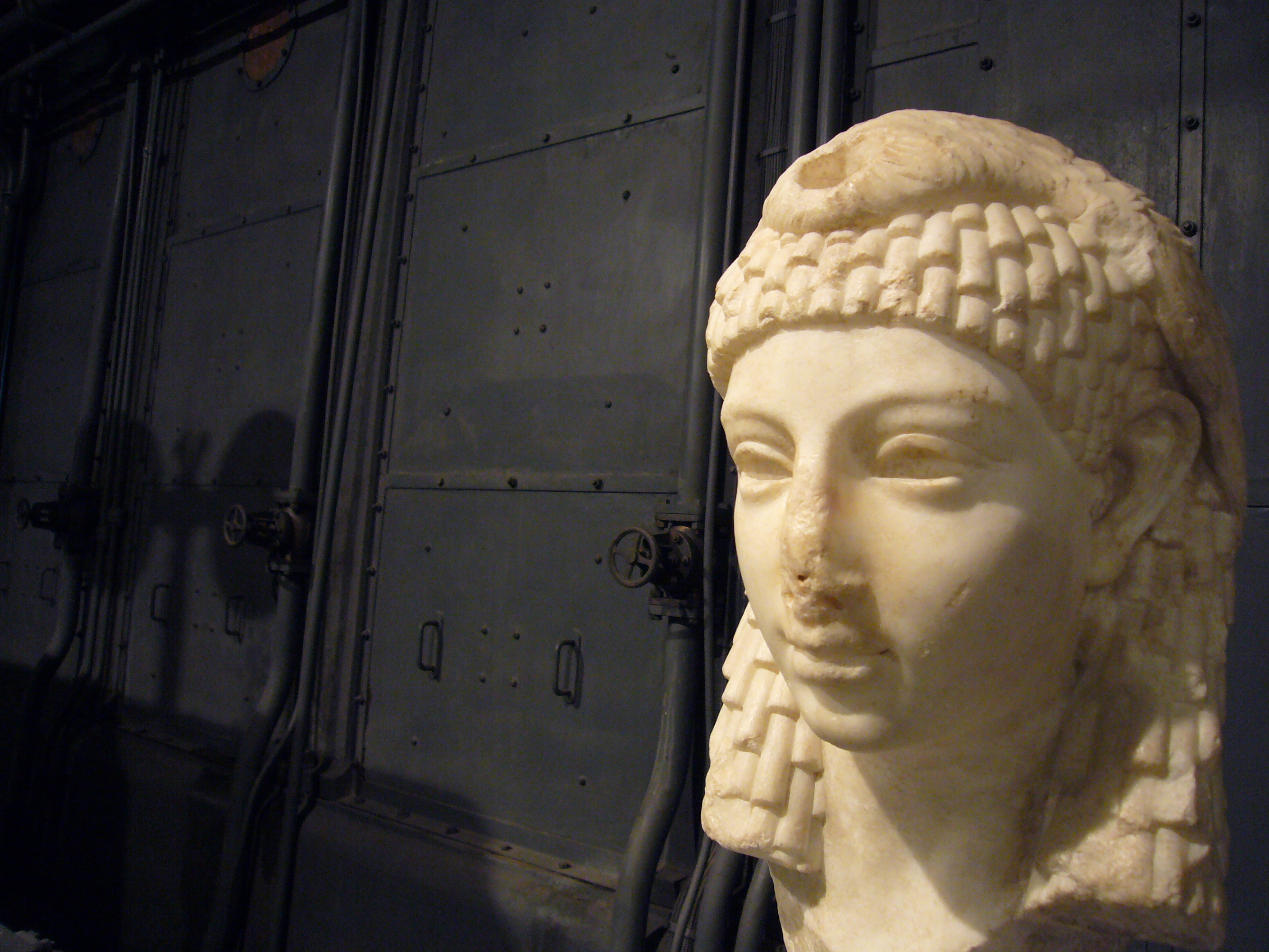 An ancient Roman bust of the Egyptian goddess Isis at the Centrale Montemartini Museum, Rome, by Howard Hudson; it is identified as a Ptolemaic royal woman by Dr. Joann Fletcher, perhaps a contemporary depiction of Cleopatra VII of Egypt as the living goddess Isis. In regards to this bust, the following is a quote from Fletcher, Joann. (2008). Cleopatra the Great: The Woman Behind the Legend. New York: Harper. ISBN 978-0-06-058558-7, image plates between pp. 246-247: “Marble head of a Ptolemaic royal female from first century BC Rome. The vulture headdress and wig of stylised curls replicate Cleopatra's appearance in Egyptian temple scenes, and the head possibly represents Cleopatra as living Isis to complement Caesar's own moves toward divinity.” The following is a quote from Fletcher (2008: p. 199): “There is even a third life-size head of Parian marble which presents a stylised image of a Ptolemaic royal female of divine status. Wearing the vulture headdress and tripartite wig of echelon curls portrayed in Cleopatra's temple reliefs and duplicated on gold signet rings perhaps worn by the pro-Caesar faction, this image, known as the 'Capitoline Head', most likely reflects the period when Living Isis resided in Rome as partner to the warrior Caesar...When Rome's main Isis temple on the Capitoline Hill was destroyed by order of the Senate in 48 BC, Caesar and Cleopatra may well have outlined plans for a new Isis temple to be built on Mars' sacred site, the Campus Martius.”